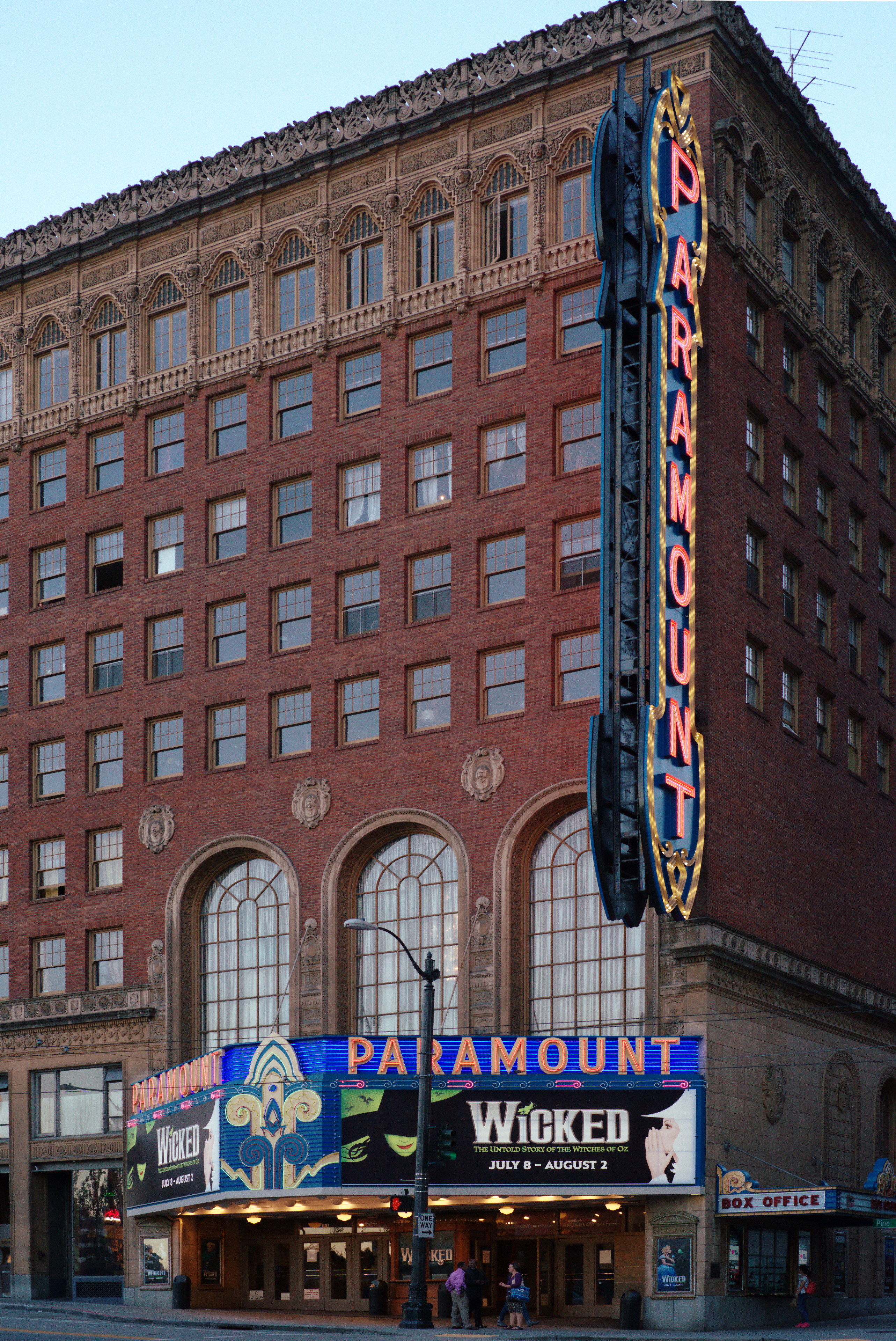 The Paramount Theatre (Seattle) showing Wicked.